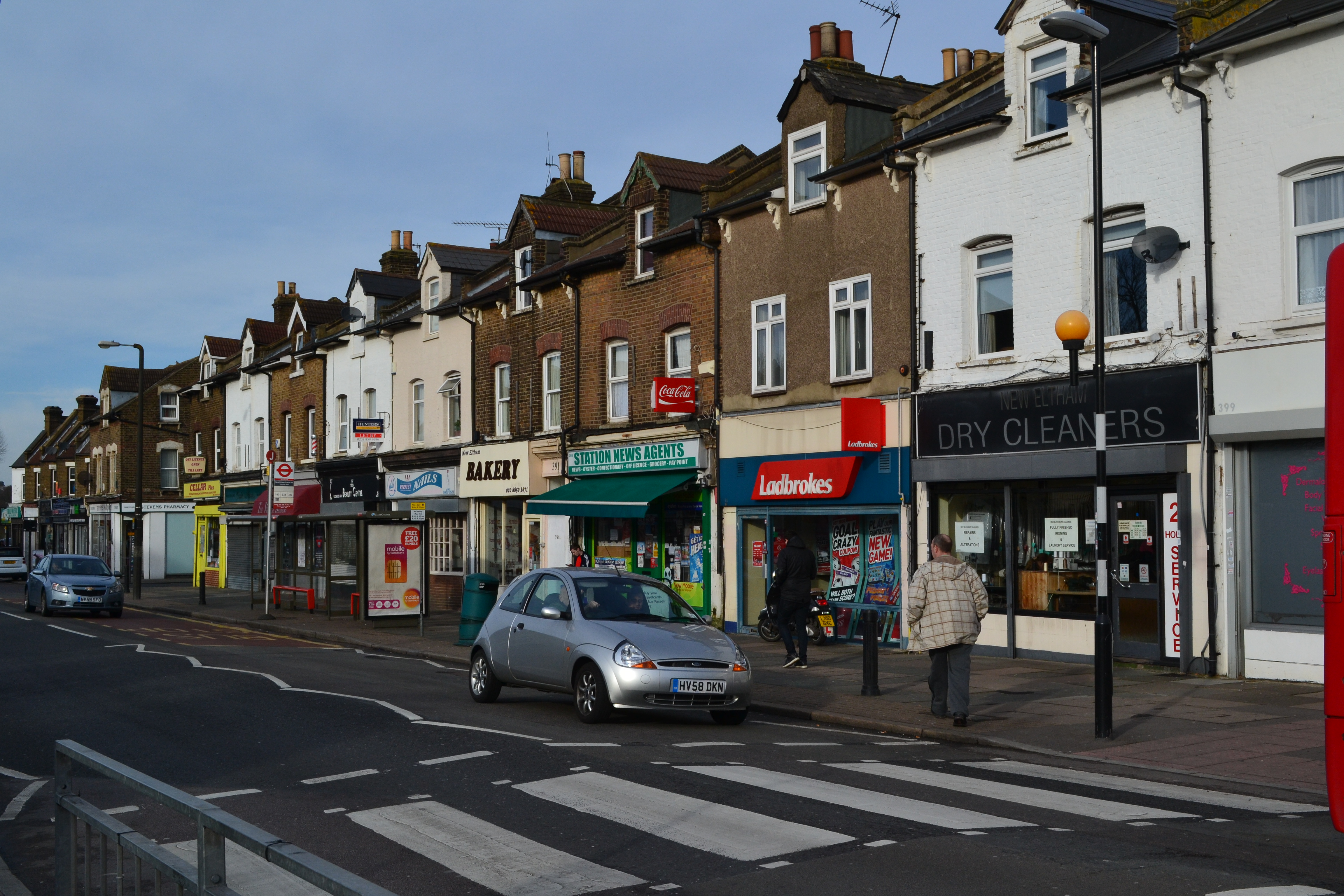 Shops in Footscray Road, New Eltham, seen from the down side railway station exit